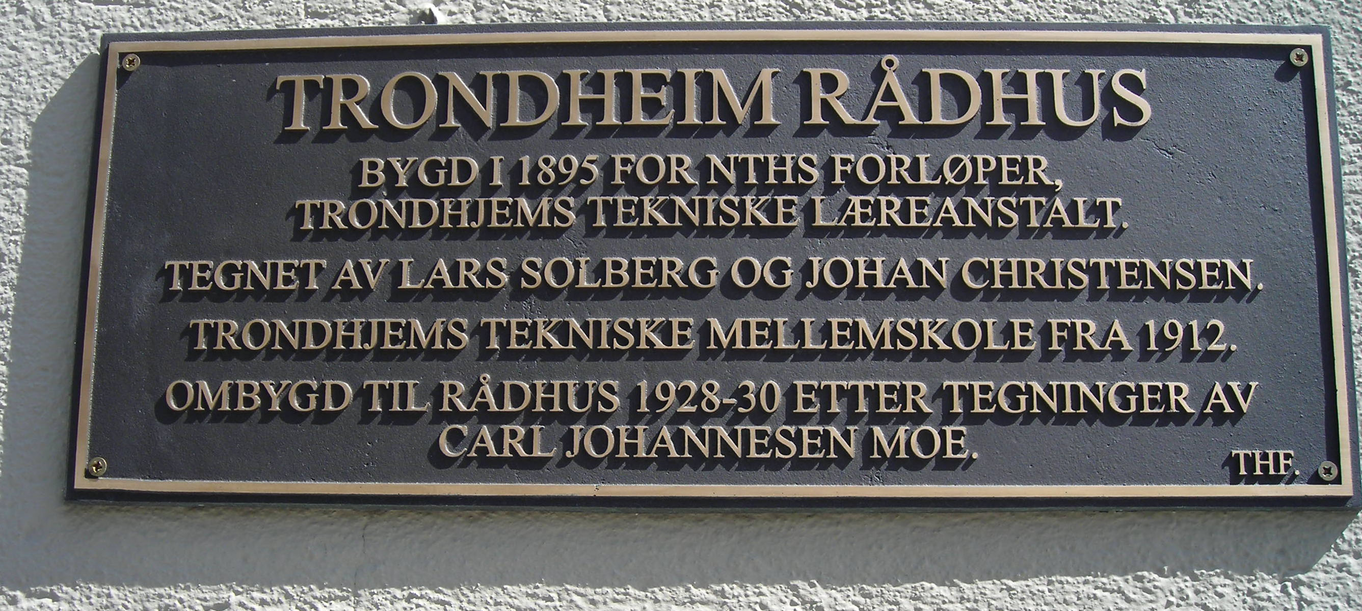 Plaque on rådhuset in Trondheim